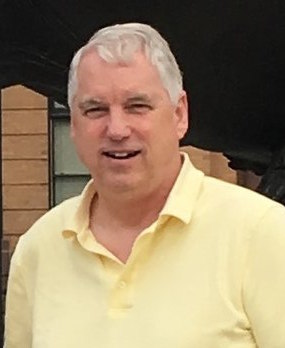 Photo of Stockbridge